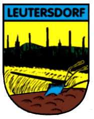 maybe the coat of Leutersdorf, Saxony, Germany